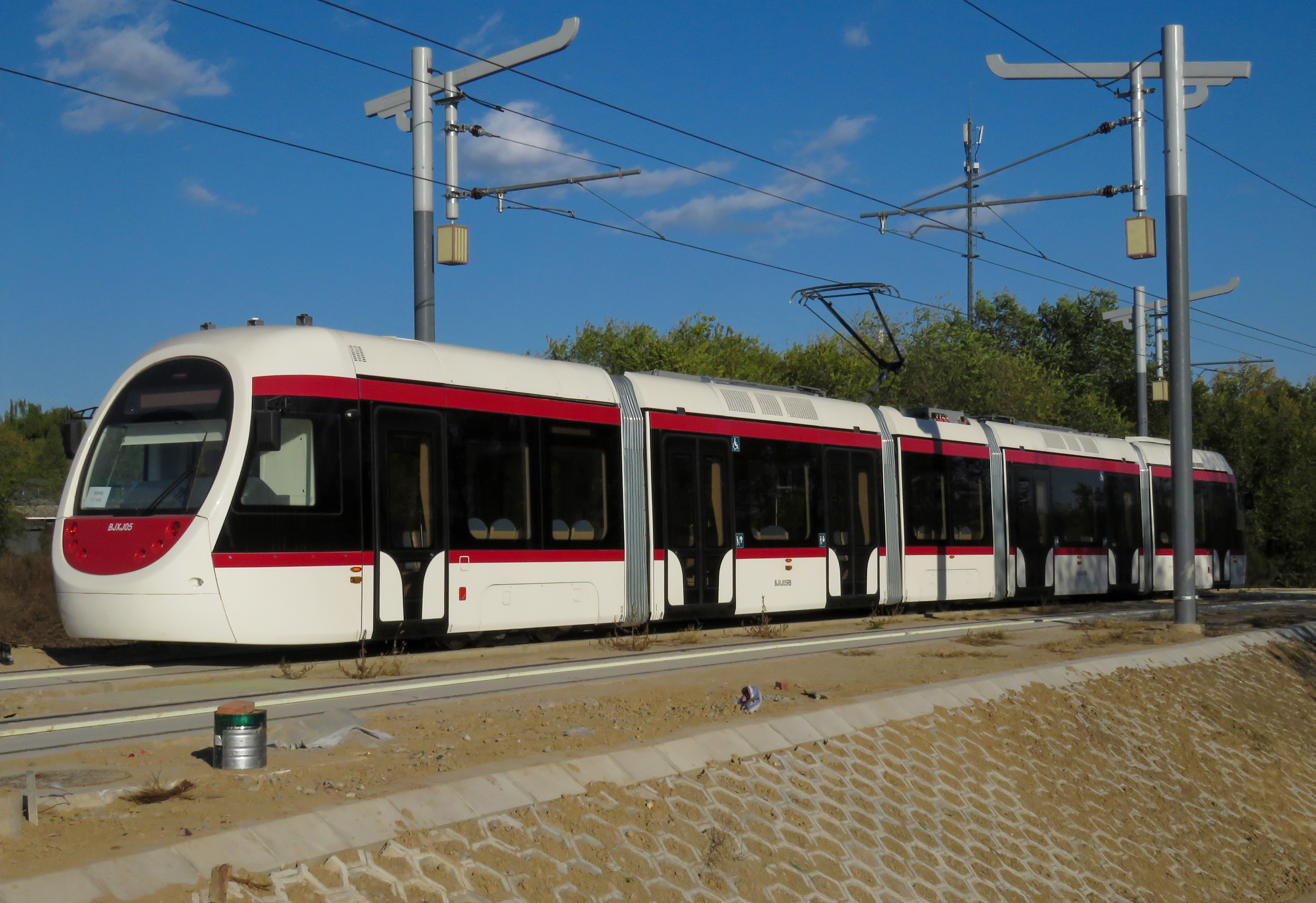 Near a bridge which is blocked due to south-north water division.